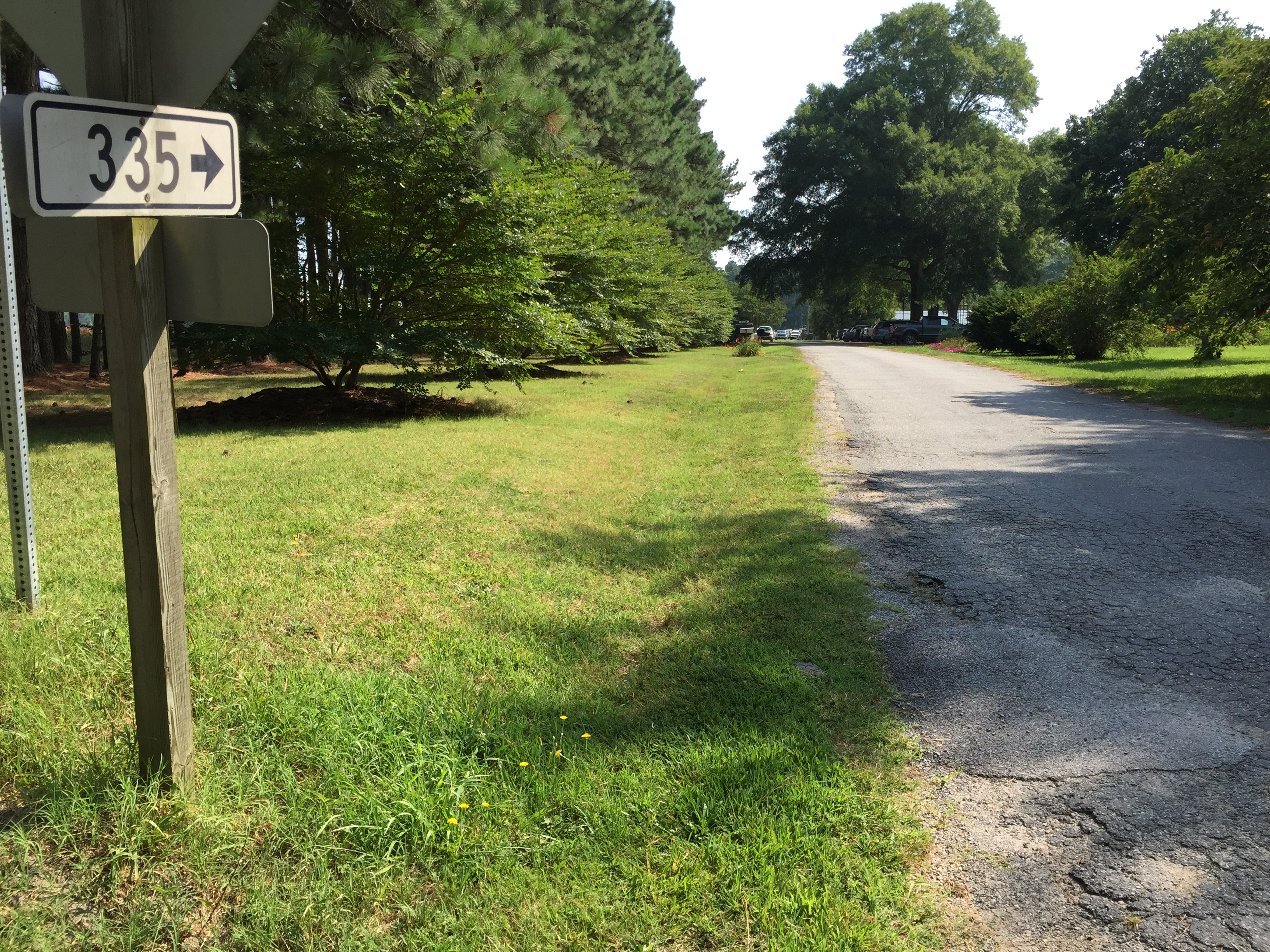 View east along Virginia State Route 335 at Shell Bridge Road (Virginia State Secondary Route 614) at the Virginia Tech Eastern Shore Experimental Station in Middlesex, Accomack County, Virginia